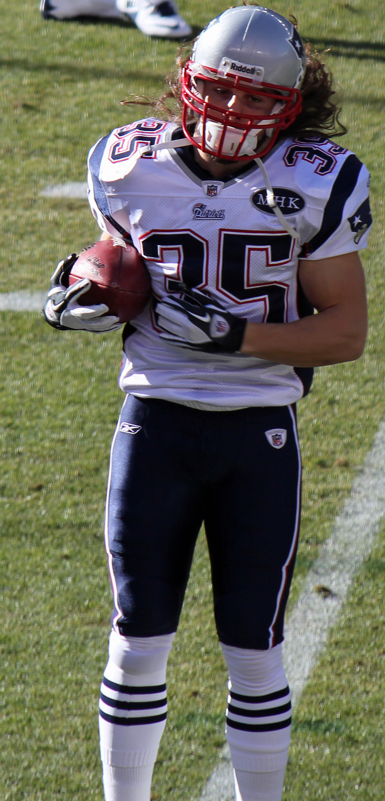 Ross Ventrone, a player on the National Football League.